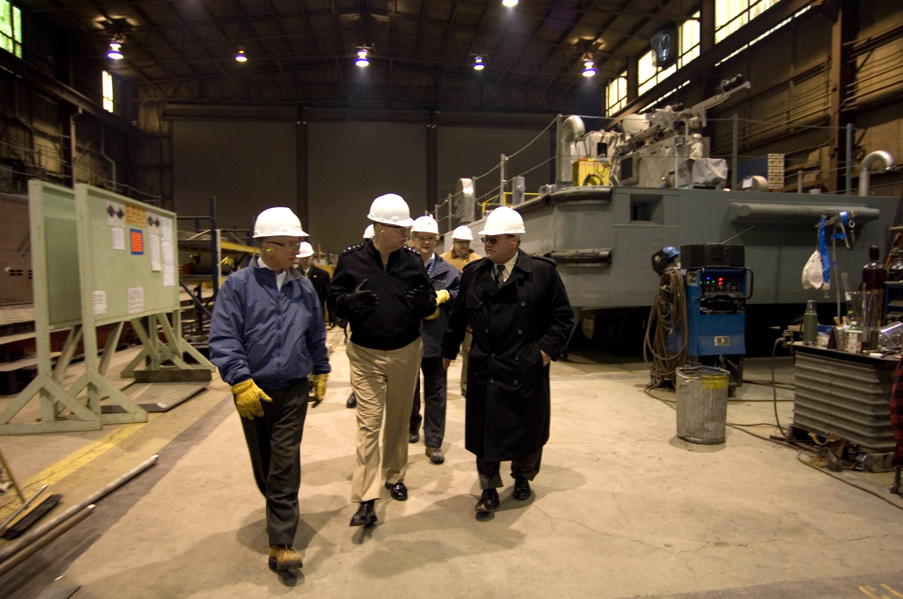 MARINETTE, Wis. (Jan. 14, 2008) Chief of Naval Operations (CNO) Adm. Gary Roughead takes a tour of Marinette Marine Shipyard. The eight-day trip also included a tour of the pre-commissioning unit littoral combat ship (LCS) Freedom. U.S. Navy photo by Mass Communication Specialist 1st Class Tiffini M. Jones (Released)